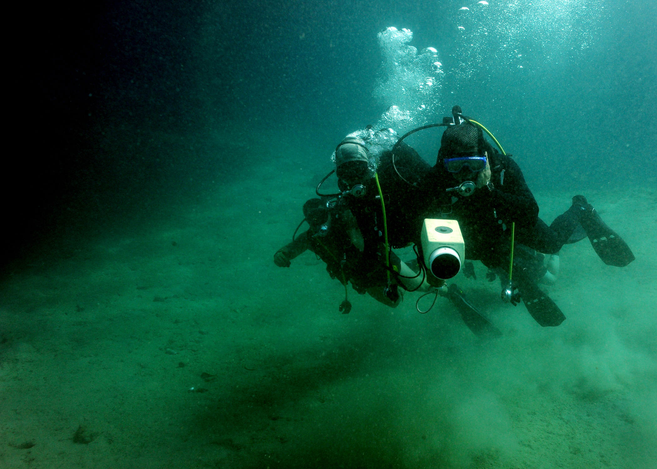 U.S. Navy Petty Officer 1st Class Eddie Sharpe, a member of Explosive Ordnance Disposal Mobile Unit 11, deployed as a part of Combined Task Group 56.1 conducts training with the 2 Alpha handheld sonar in the Red Sea on March 23, 2010. Explosive Ordnance Disposal Mobile Unit 11 is conducting dive equipment familiarization and training operations in the Red Sea.